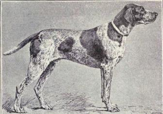 Blue Pointer of Auvergne from 1915